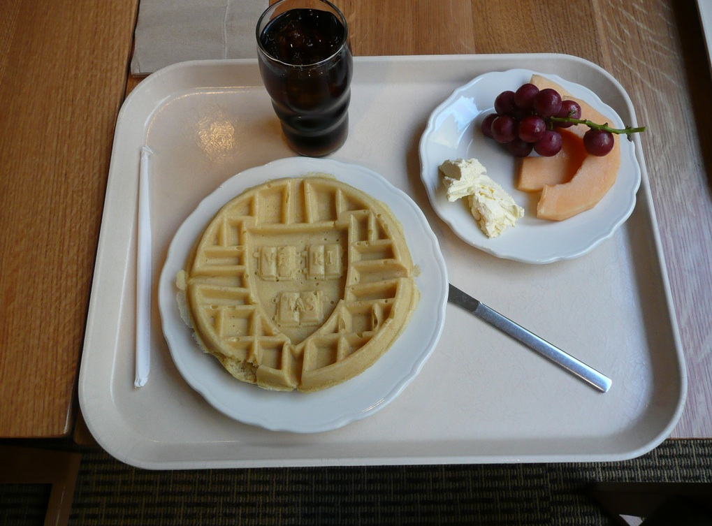 A breakfast containing a waffle with the Harvard University crest. Photo taken in Currier House of Harvard College.